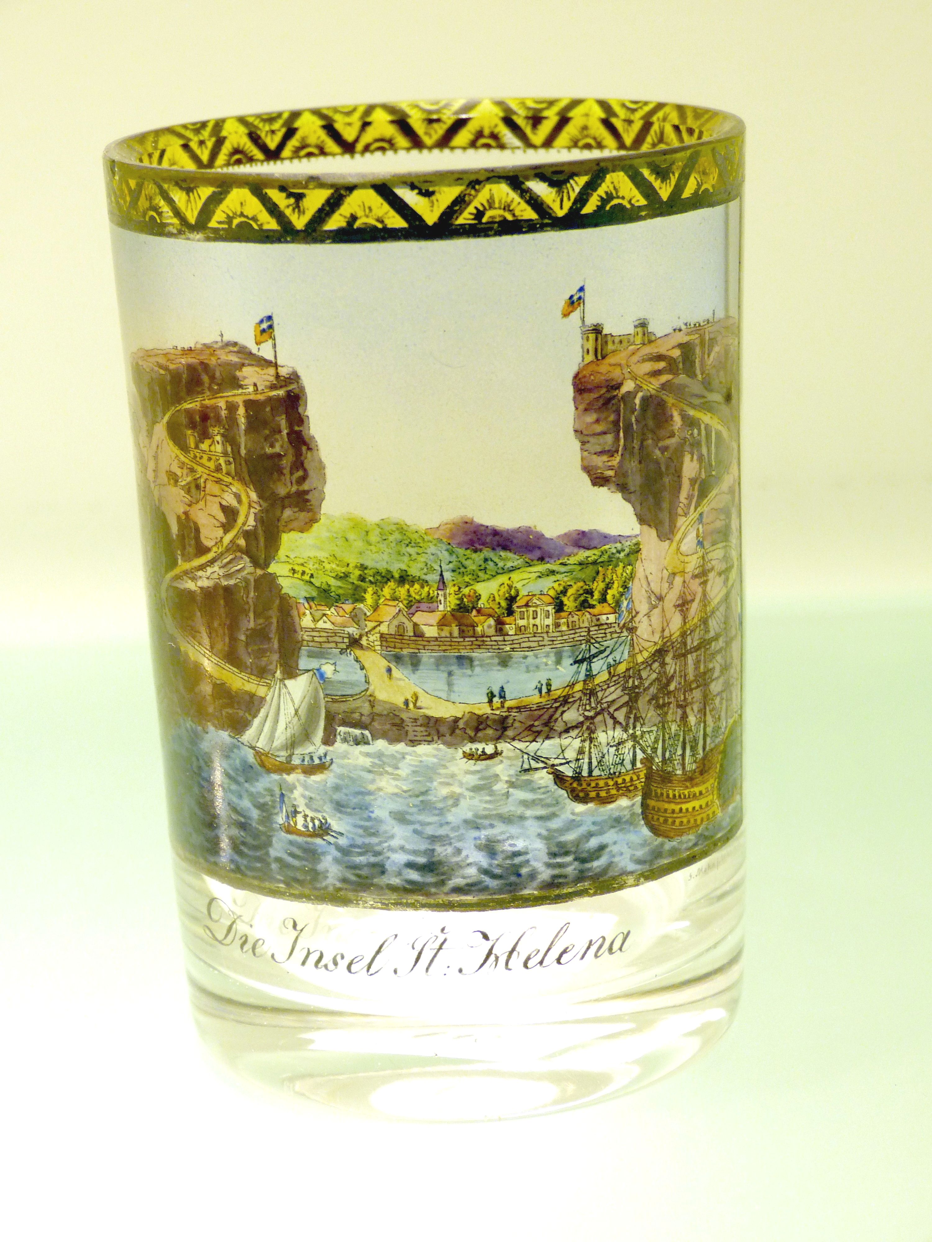 Vienna ( Austria ). Wien Museum Karlspatz: Glass cup ( 1815 ) with painting of the island of Saint Helena, by the workshop of Gottlob Samuel Mohn.